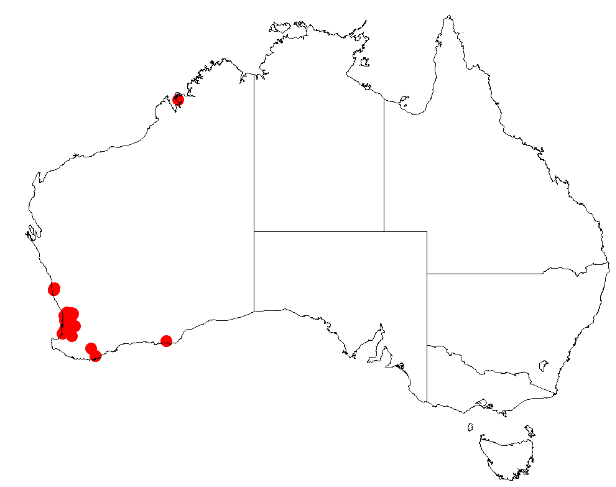 Scaevola pilosa occurrence data downloaded from Australasian Virtual Herbarium on 12 May 2019